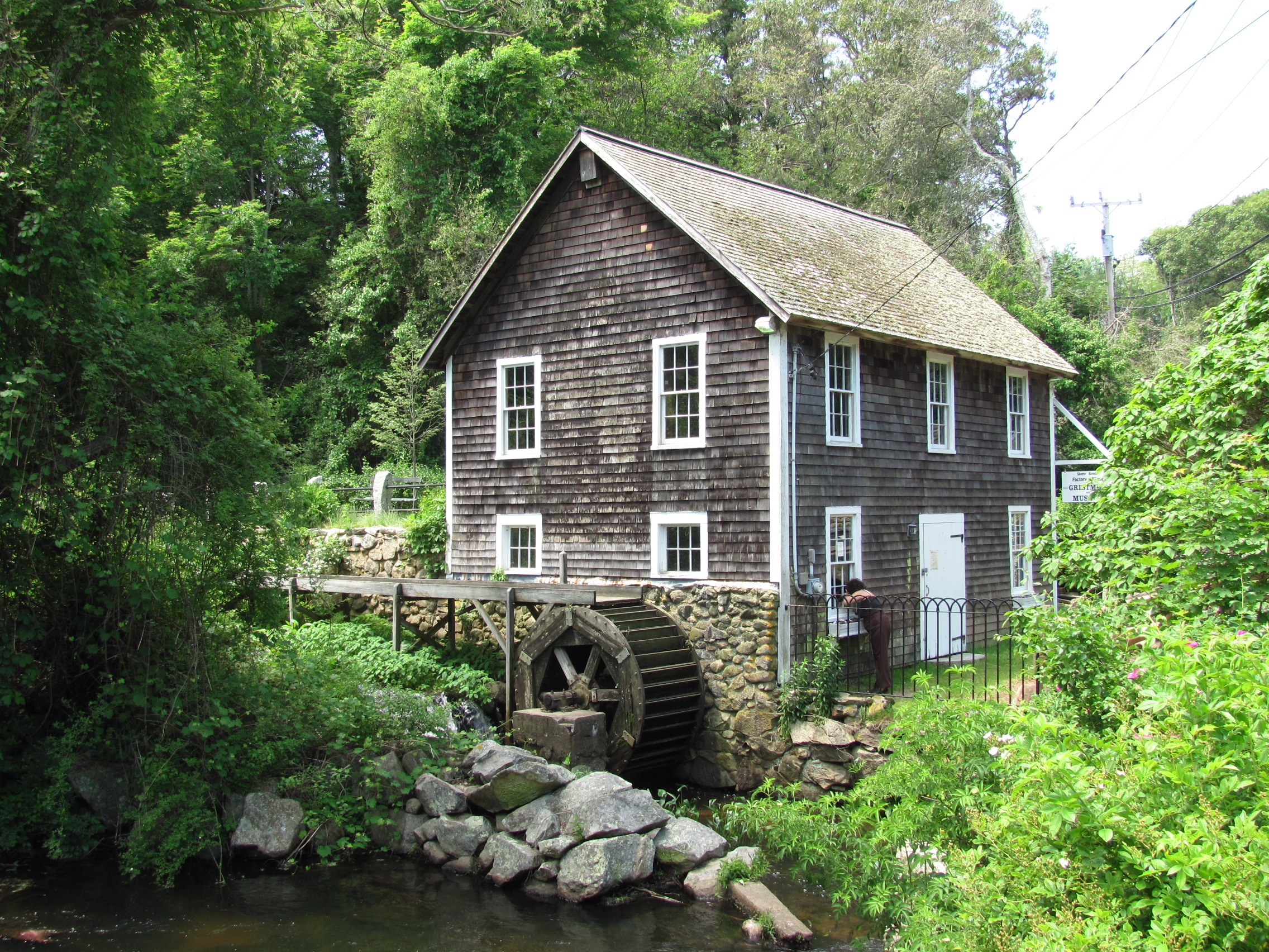 Stony Brook Grist Mill, West Brewster Massachusetts